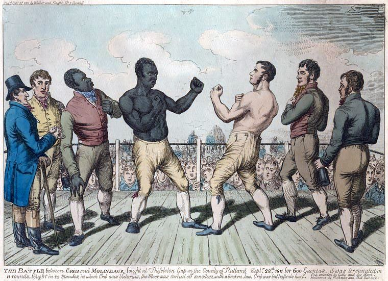 The battle between Crib [Cribb] and Molineaux. Hand colored engraving.